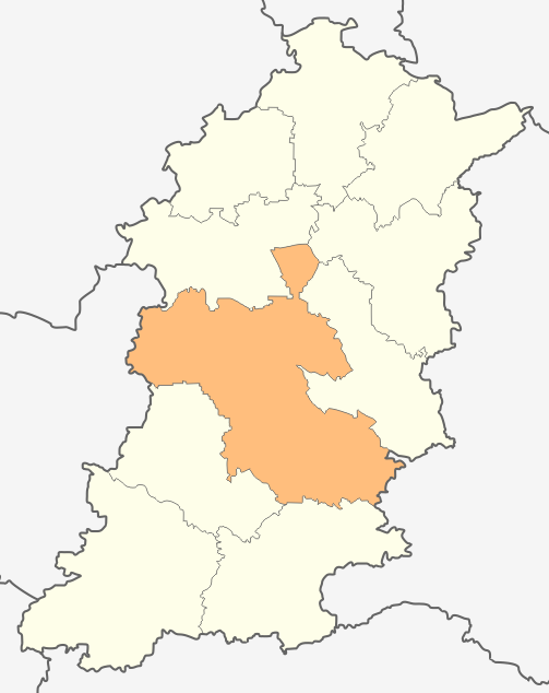 Map of Shumen Municipality, Shumen Province.